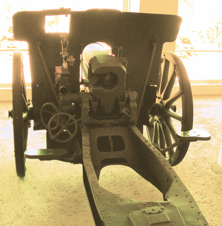 Soviet 122 mm howitzer Model 1909-1937, displayed in Hämeenlinna Artillery Museum. This particular gun was manufactured in St. Petersburg and Perm in 1910. The Model 1909 howitzer was based on a German Krupp design. They were produced in Imperial Russia and then in the Soviet Union. As was typical for most World War I artillery pieces, the gun was modernised from 1937 onwards, the resulting guns called Model 09-37. The poor quality of the photo is an unfortunate result of having the object in a darkened interior against a very bright background. Photo taken on June 18, 2006. Source: Photo by me, User:Balcer.